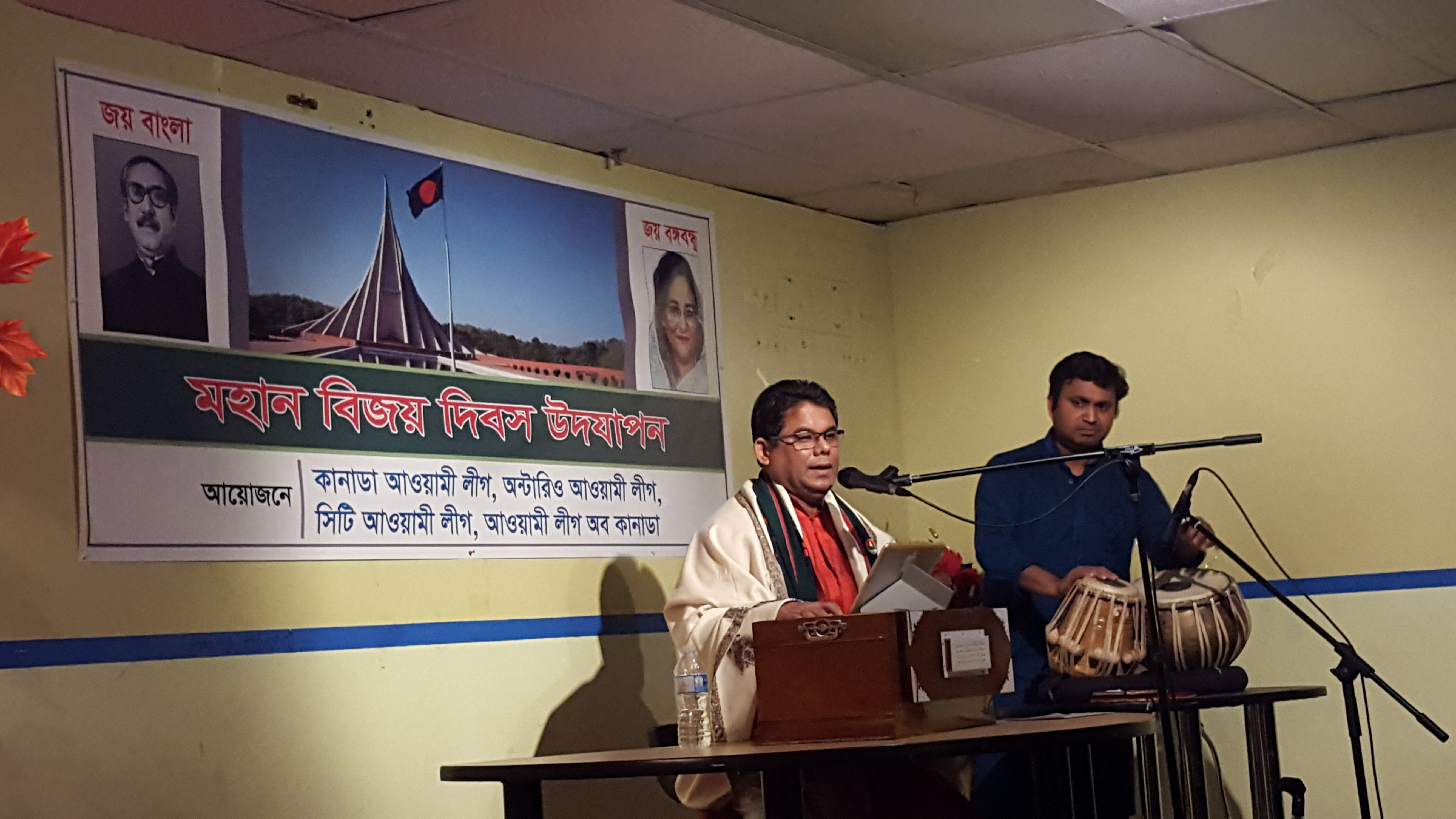 Kamal Ahmed performance in canada